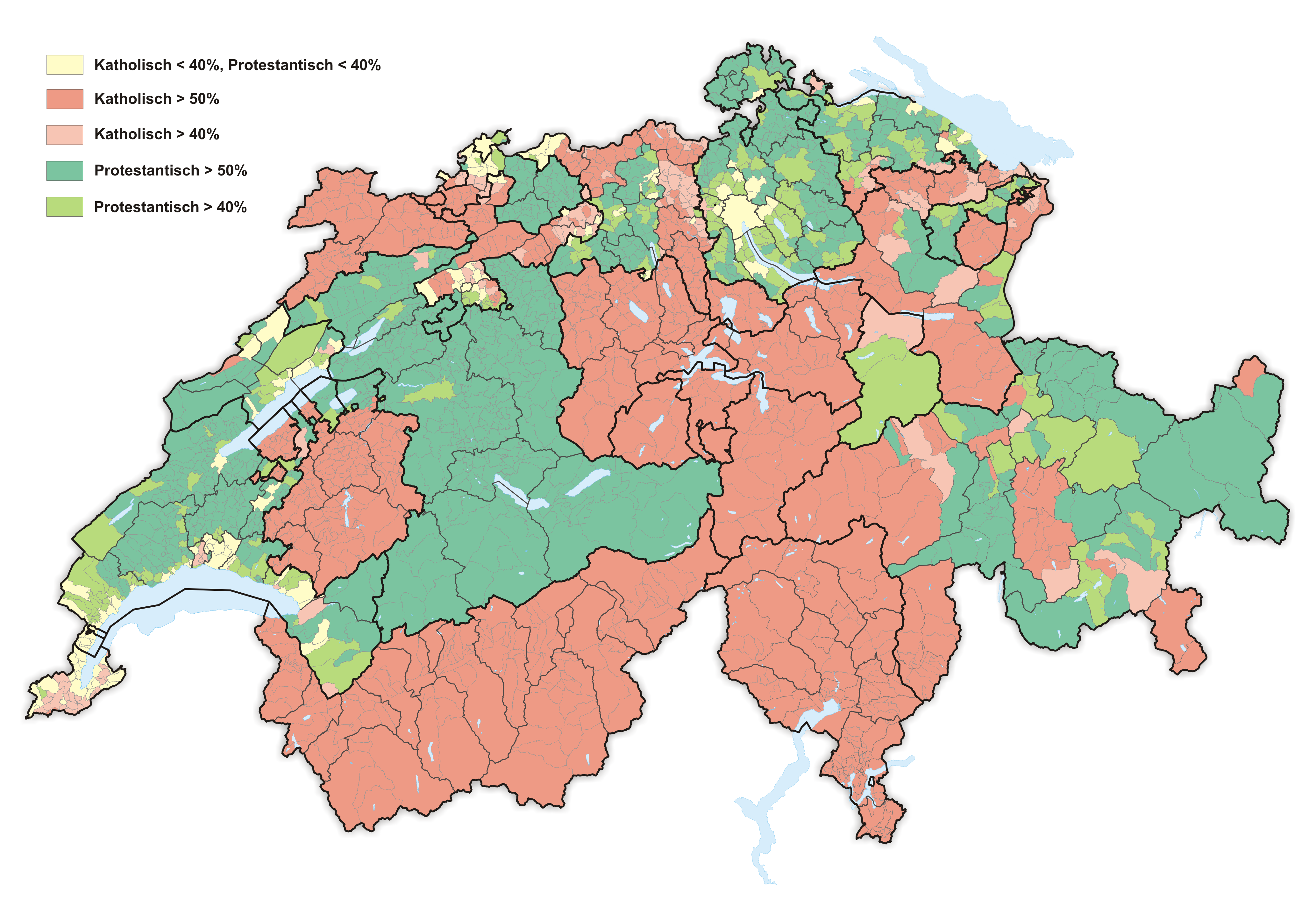 Religion in Switzerland